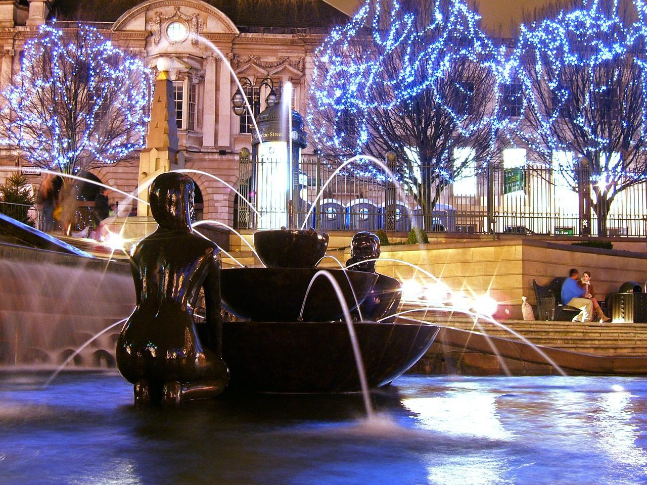 Youth by Dhruva Mistry seen at night in Victoria Square. source - [1]